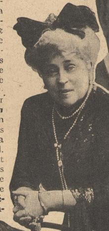 Blanche Pierson, 1917